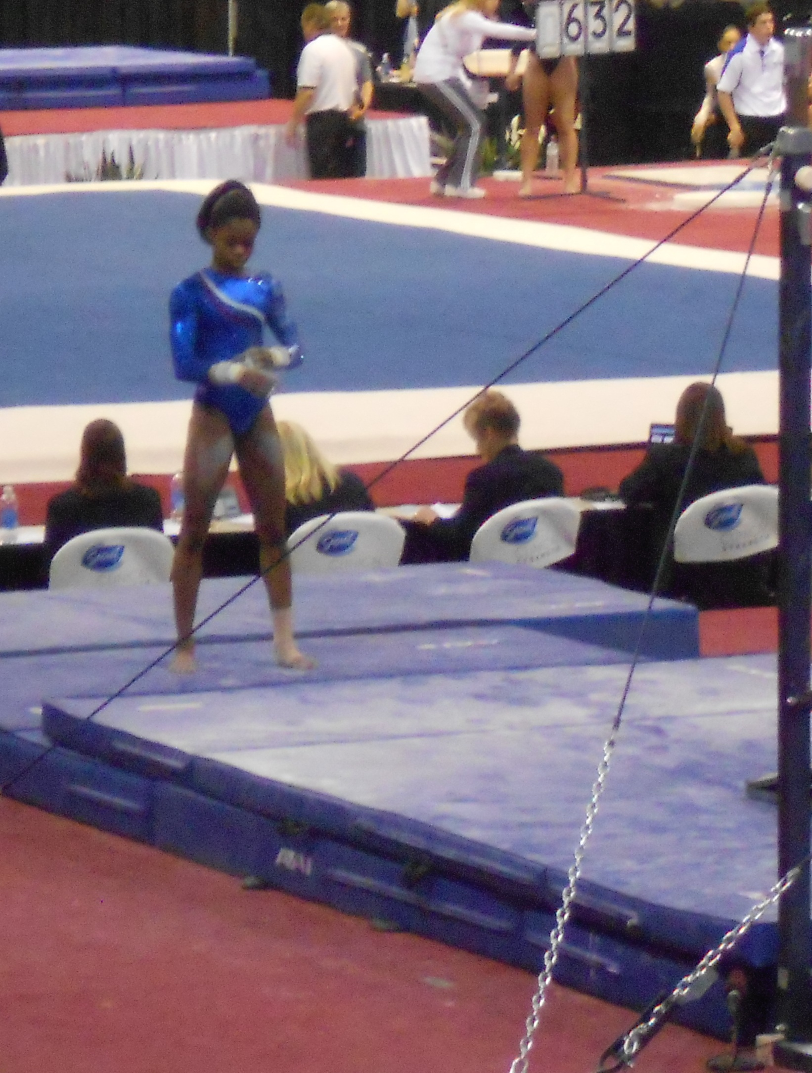 Gabby Douglas bars at 2012 Secret US Classic